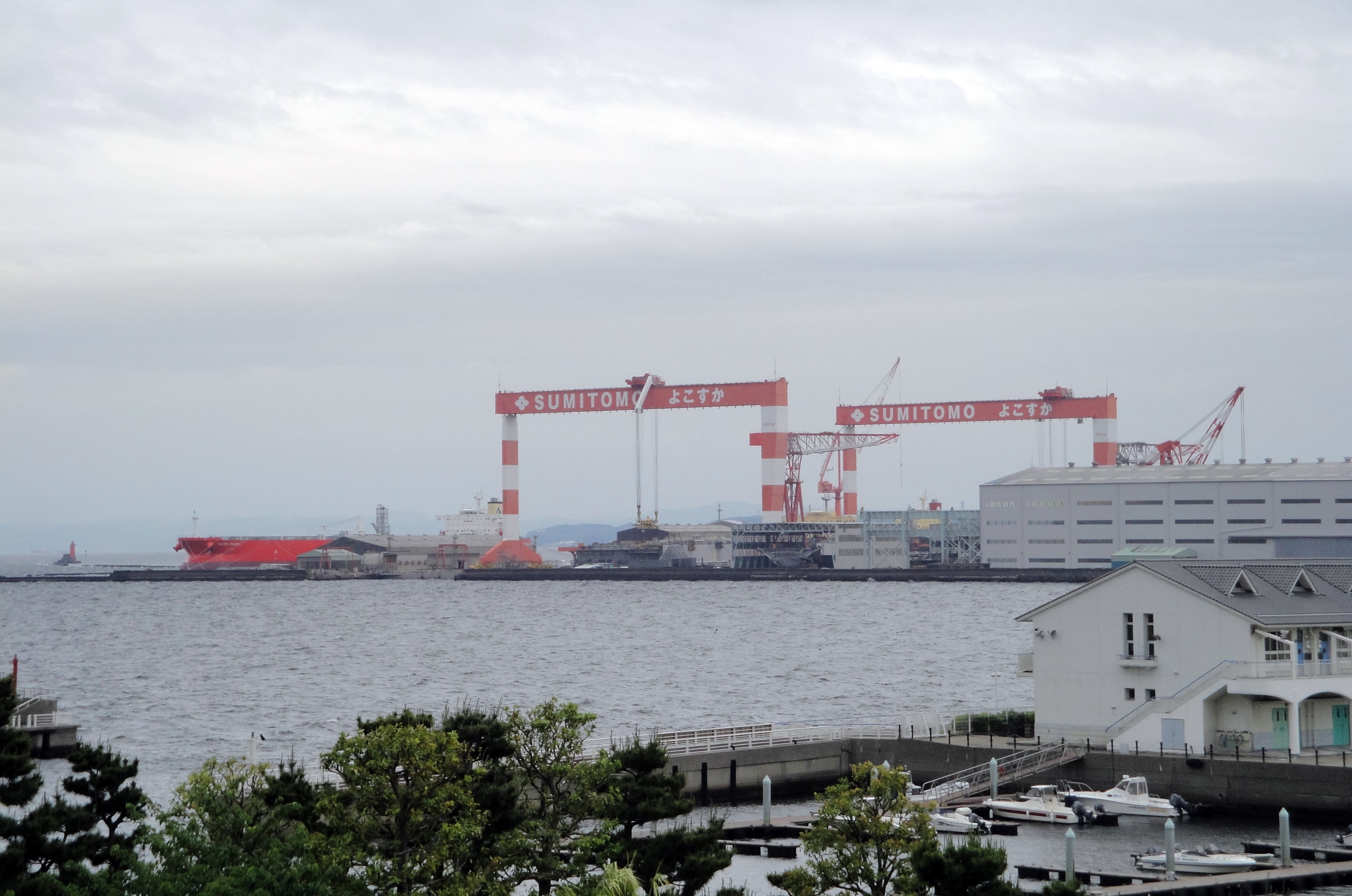 Sumitomo Heavy Industries Yokosuka Shipyard.